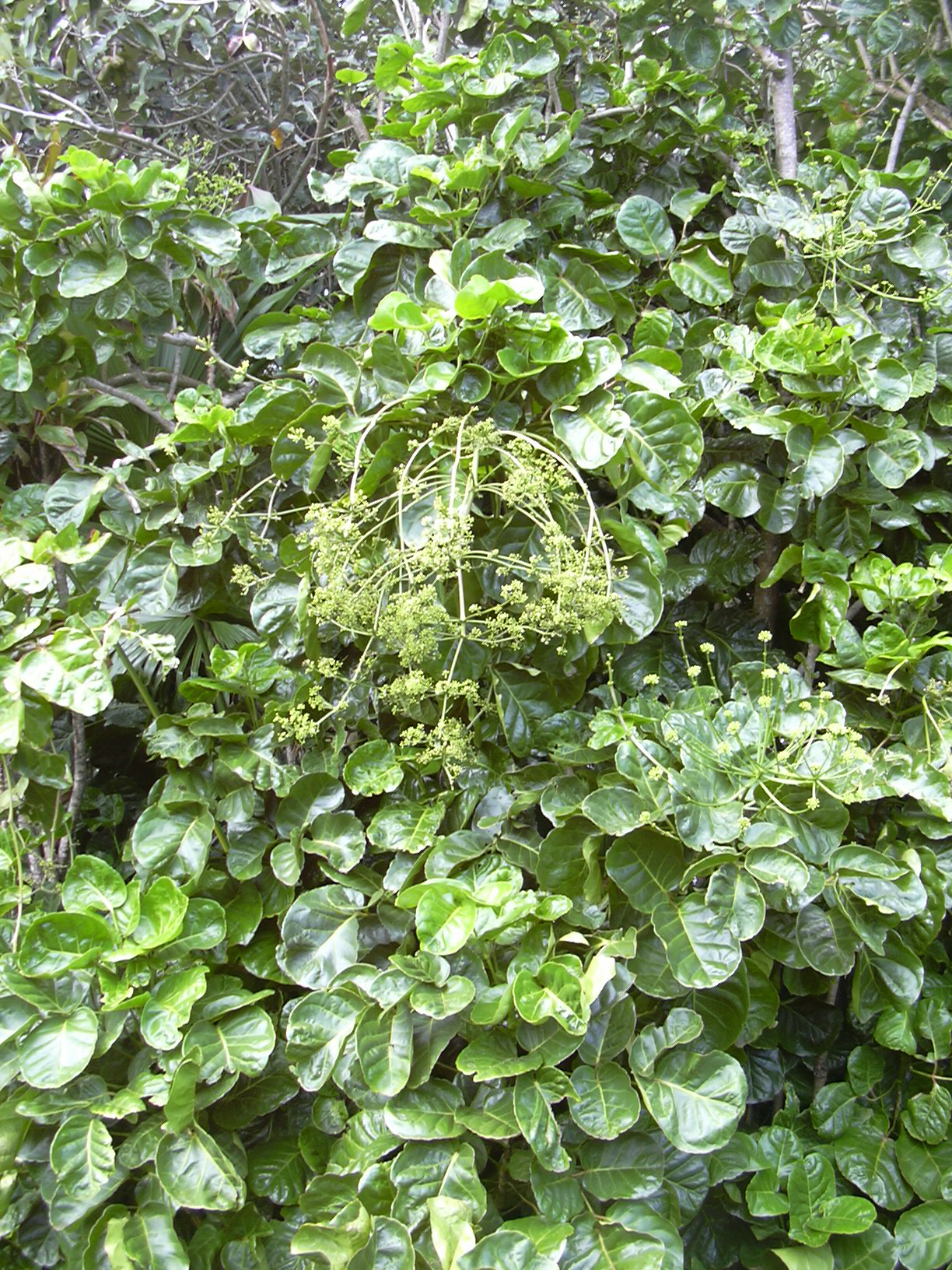 Polyscias scutellaria (Panax, round leaved panax) Flowering habit at Keanae, Maui, Hawaii. February 09, 2004 #040209-0206 Image Use Policy